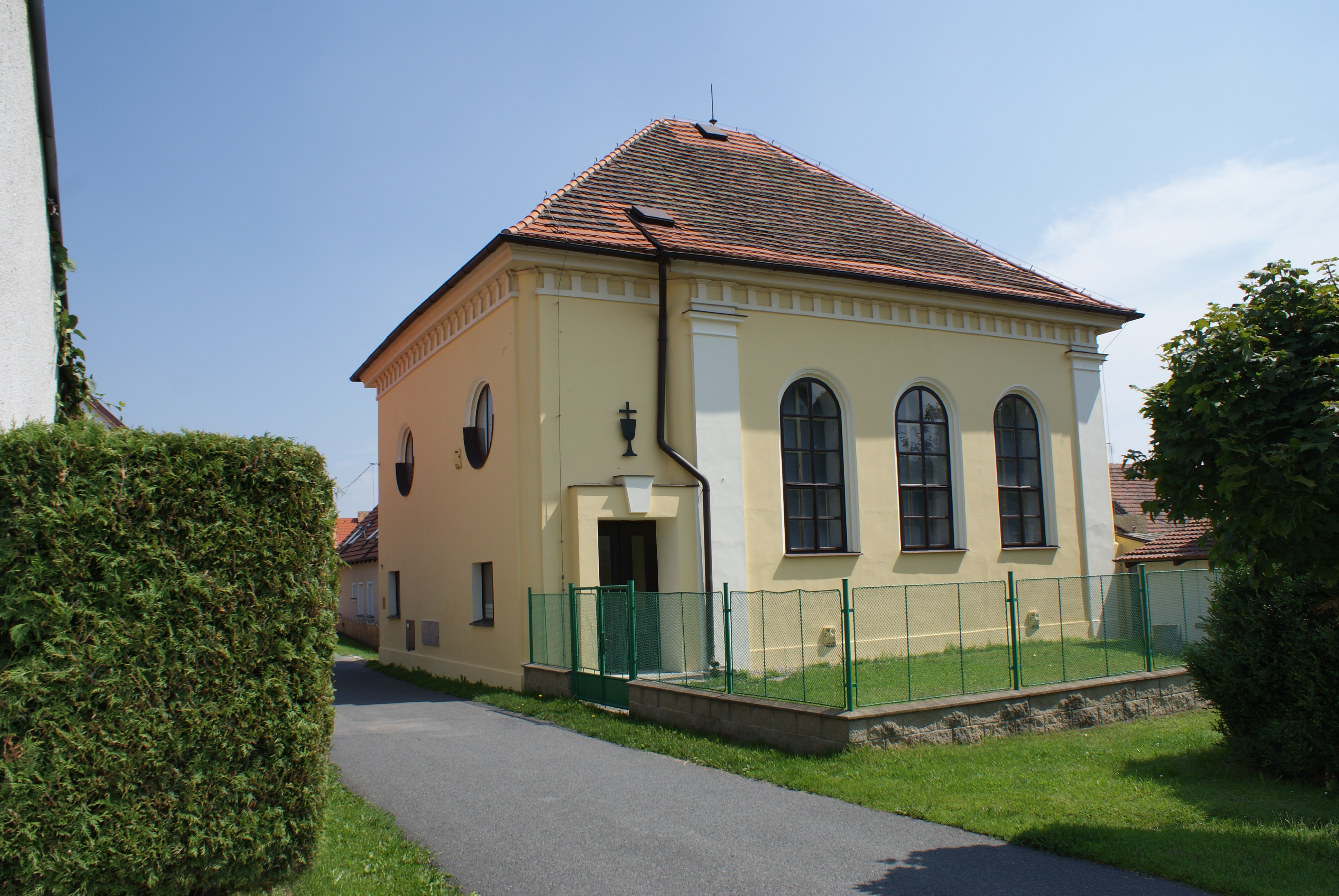 Former Synagogue in Nové Strašecí, a town in Rakovník District, Central Bohemian region, Czech Republic.